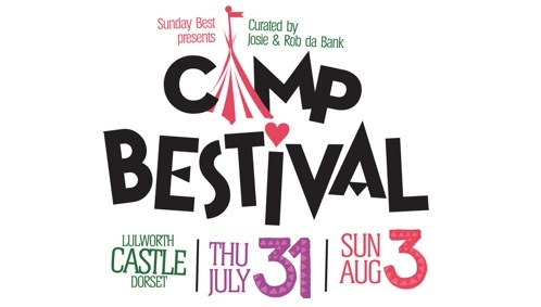 Camp Bestivals 2014 Logo